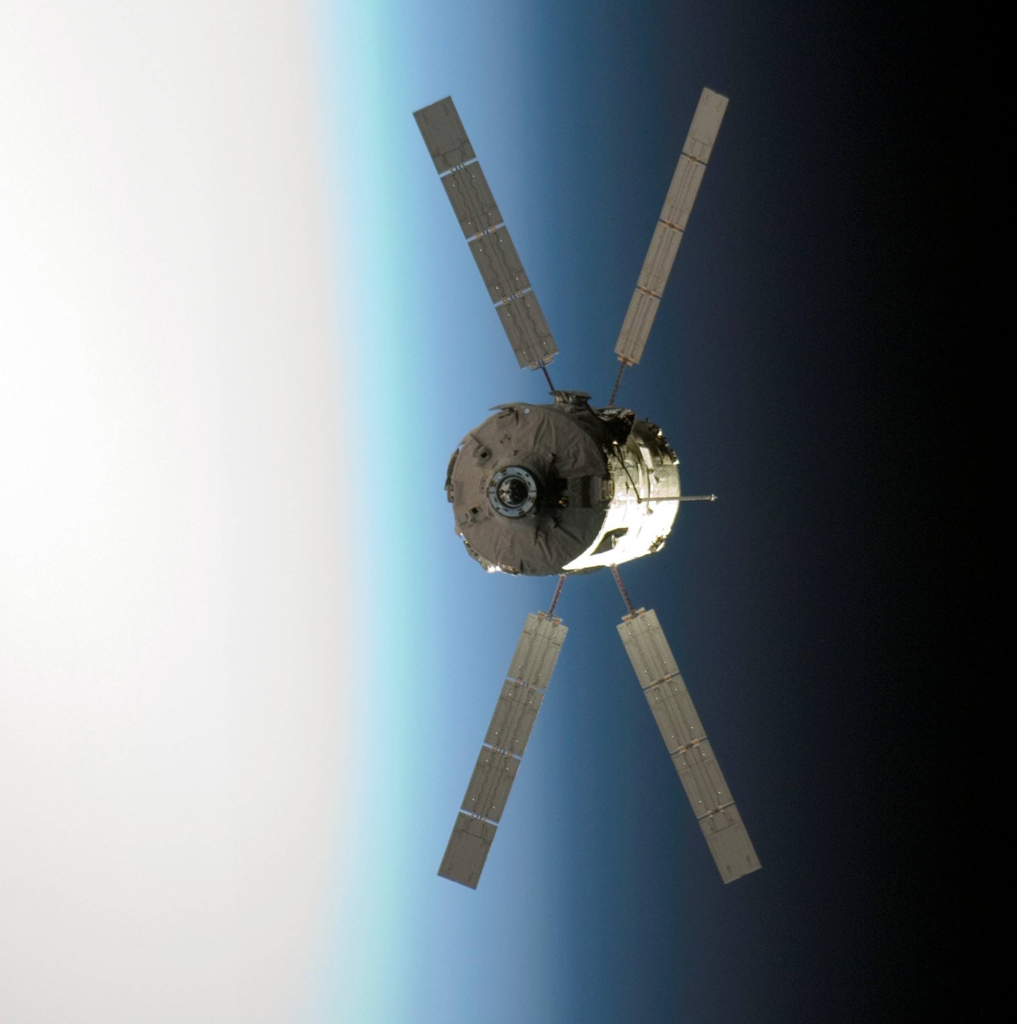 ISS016-E-034191 (31 March 2008) --- Backdropped by the airglow of Earth's horizon and the blackness of space, the Jules Verne Automated Transfer Vehicle (ATV) approaches the International Space Station on Monday, March 31, 2008, for its "Demo Day 2" practice maneuvers. It moved to within 36 feet of the Zvezda Service Module in a rehearsal for docking on Thursday.